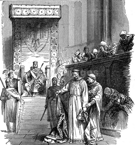 Synod of Sutri (1046 - Henry III) deposed three popes: Benedict IX - having twice resigned Sylvester III - mere intruder Gregory VI - simony in buying the papacy